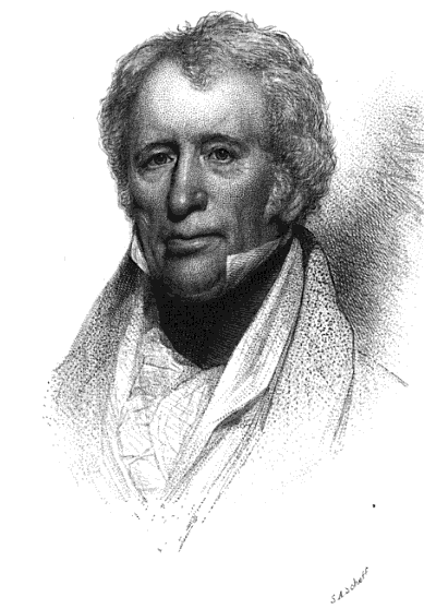 Portrait of Benjamin Russell (September 13, 1761 – January 4, 1845)